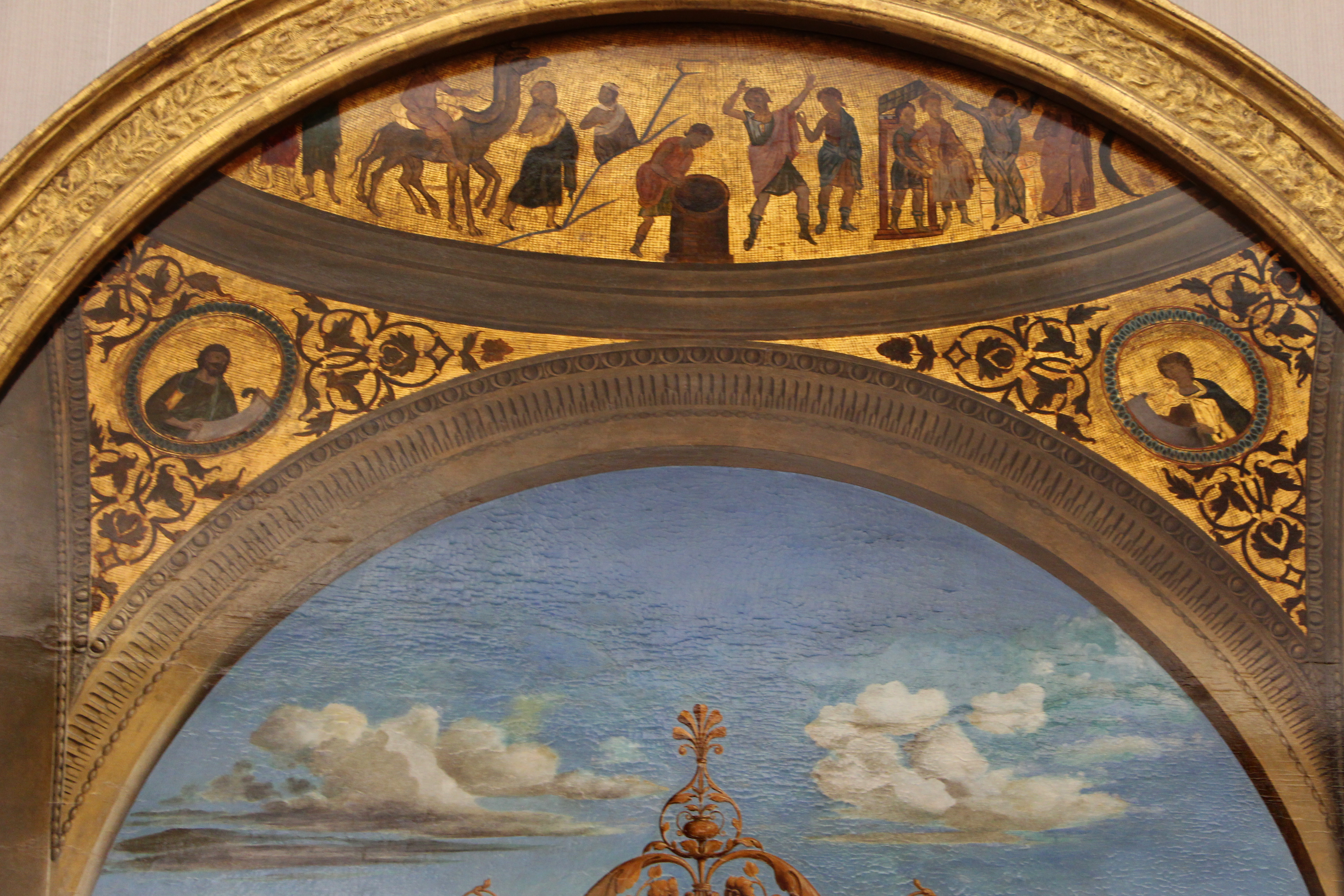 Italian Renaissance paintings in the Gemäldegalerie, Berlin